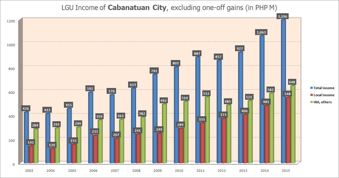 The chart shows the income of Cabanatuan City LGU form CY 2003 to CY 2015.